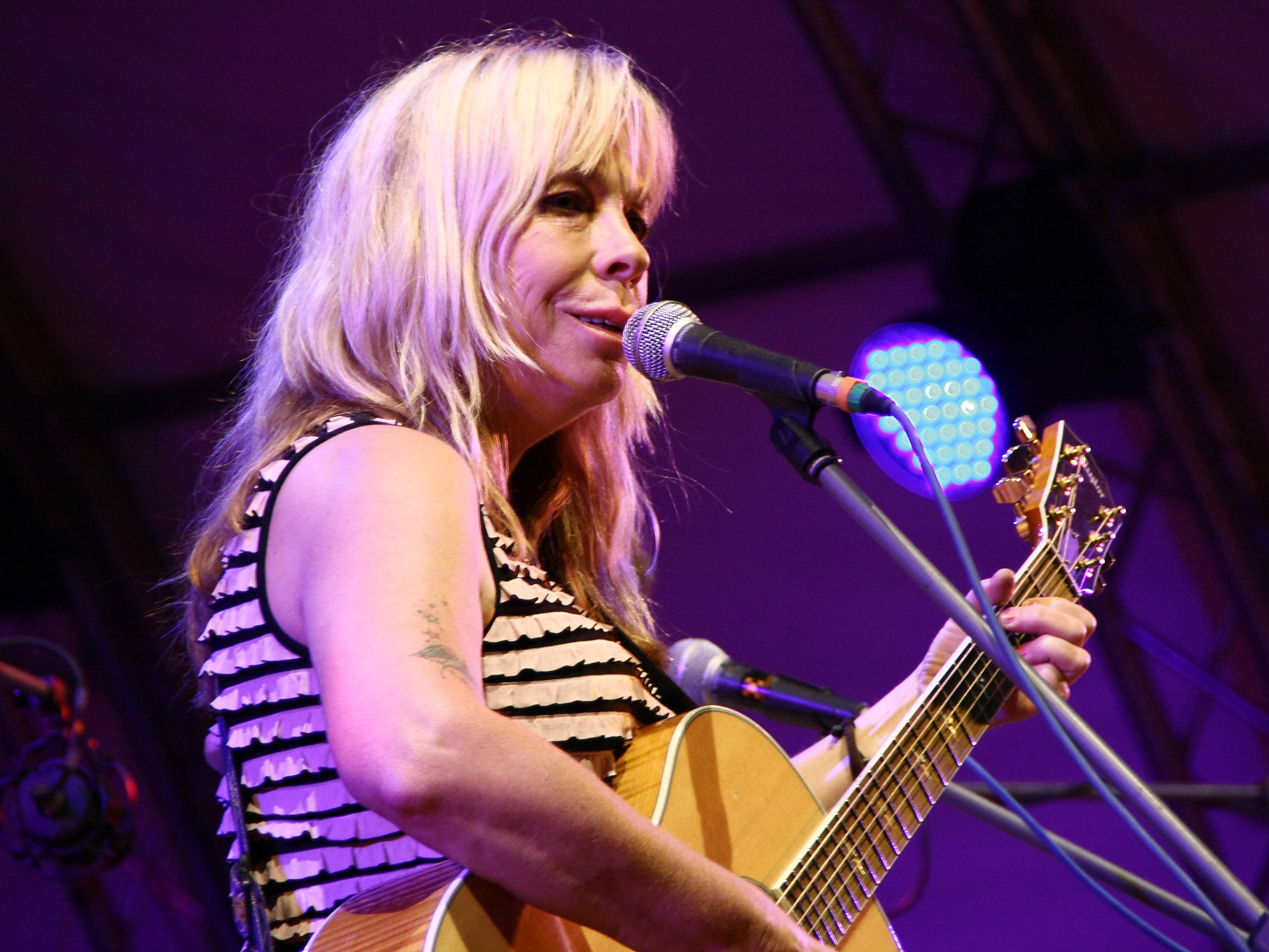 Rickie Lee Jones at TFF.Rudolstadt 2010